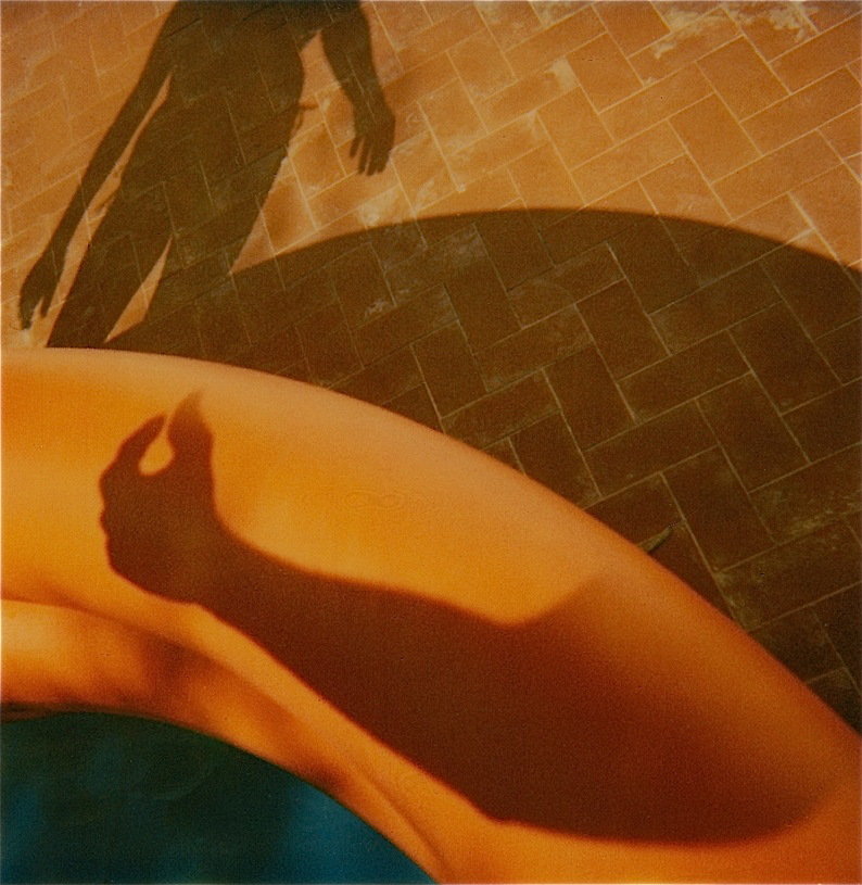 Polaroid sx 70 - Augusto De Luca photographer